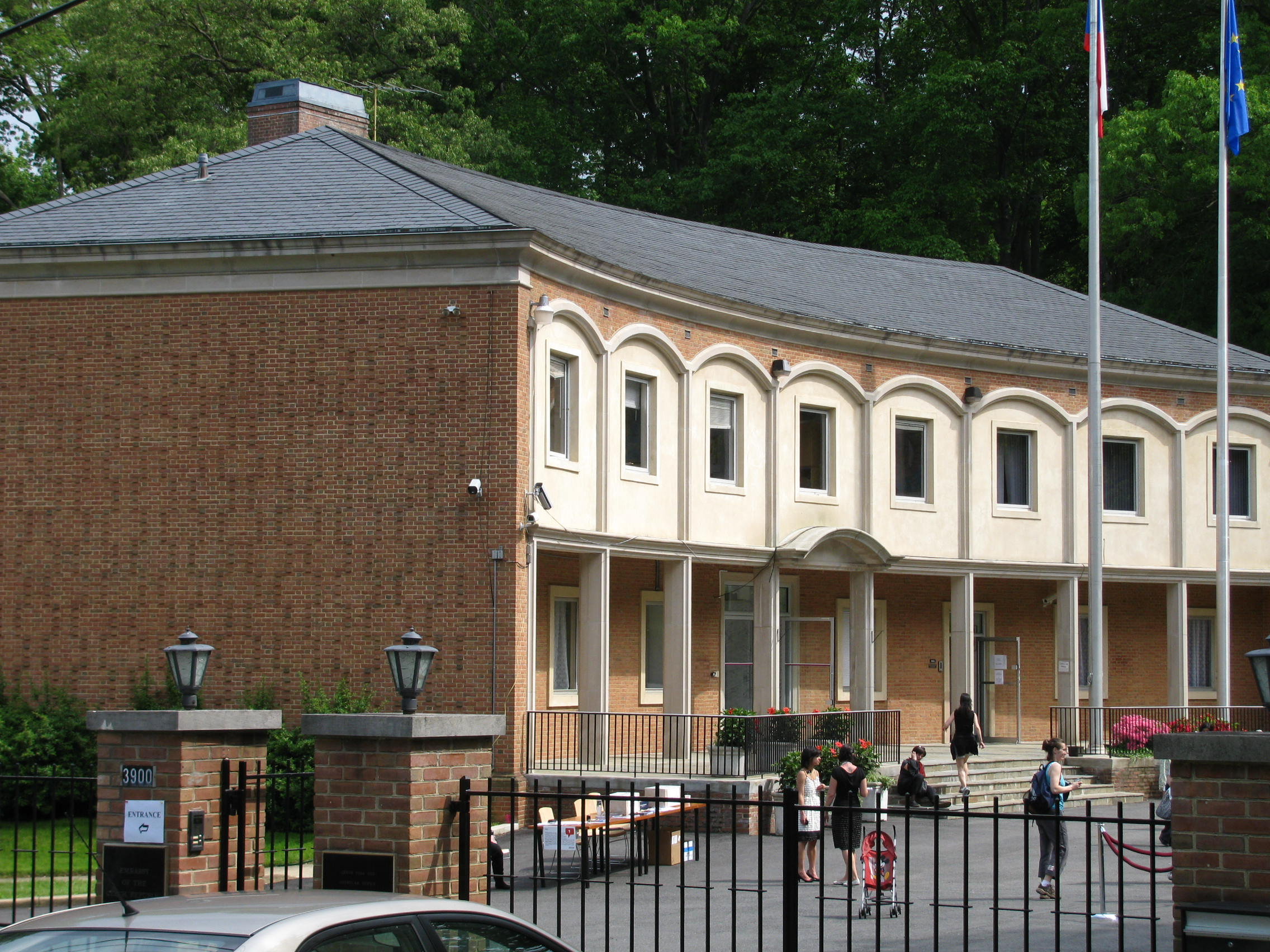 exterior of Czech embassy, washington, d.c.